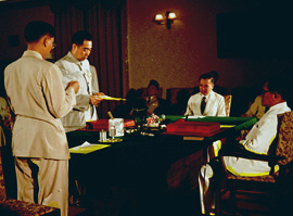 Chinese Premier and Foreign Minister Zhou Enlai (standing, second from left) and Indonesian Foreign Minister Sunario (seated, right) at the signing of the Sino-Indonesian Dual Nationality Treaty during the Asian–African Conference.